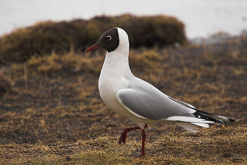 This is the male showing offBlack-headed Gull - Larus ridibundus - Hettumáfur